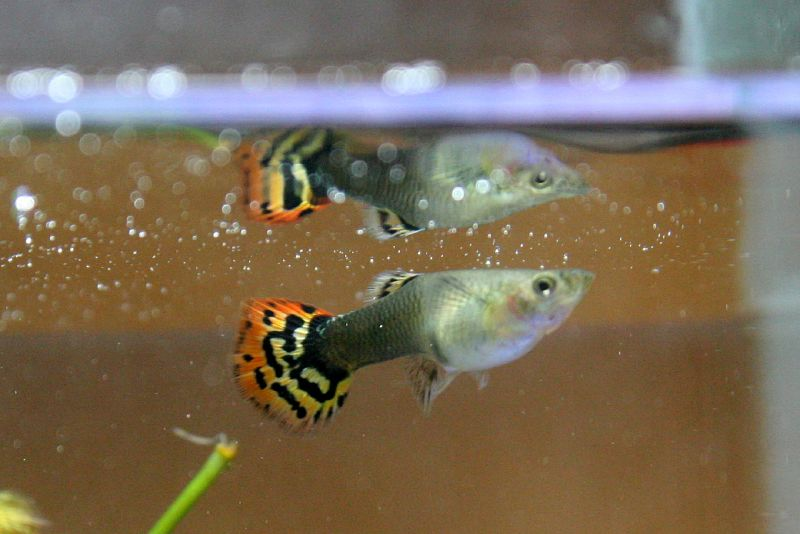 Female guppy swimming in a fish tank.